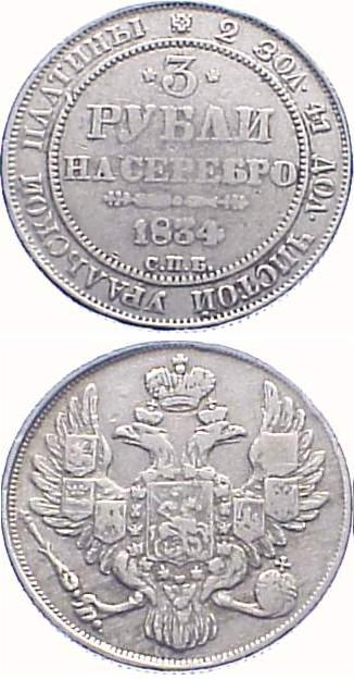 3 ruble russian platinum coin ca. 1834 Center: "3 silver rubles, 1834, S.p.b. (Saint Petersburg)" Along the edge: "2 zol. 41 dol. of pure Ural platinum" (2 zolotniks 41 dolya's, or 10.353 grams)